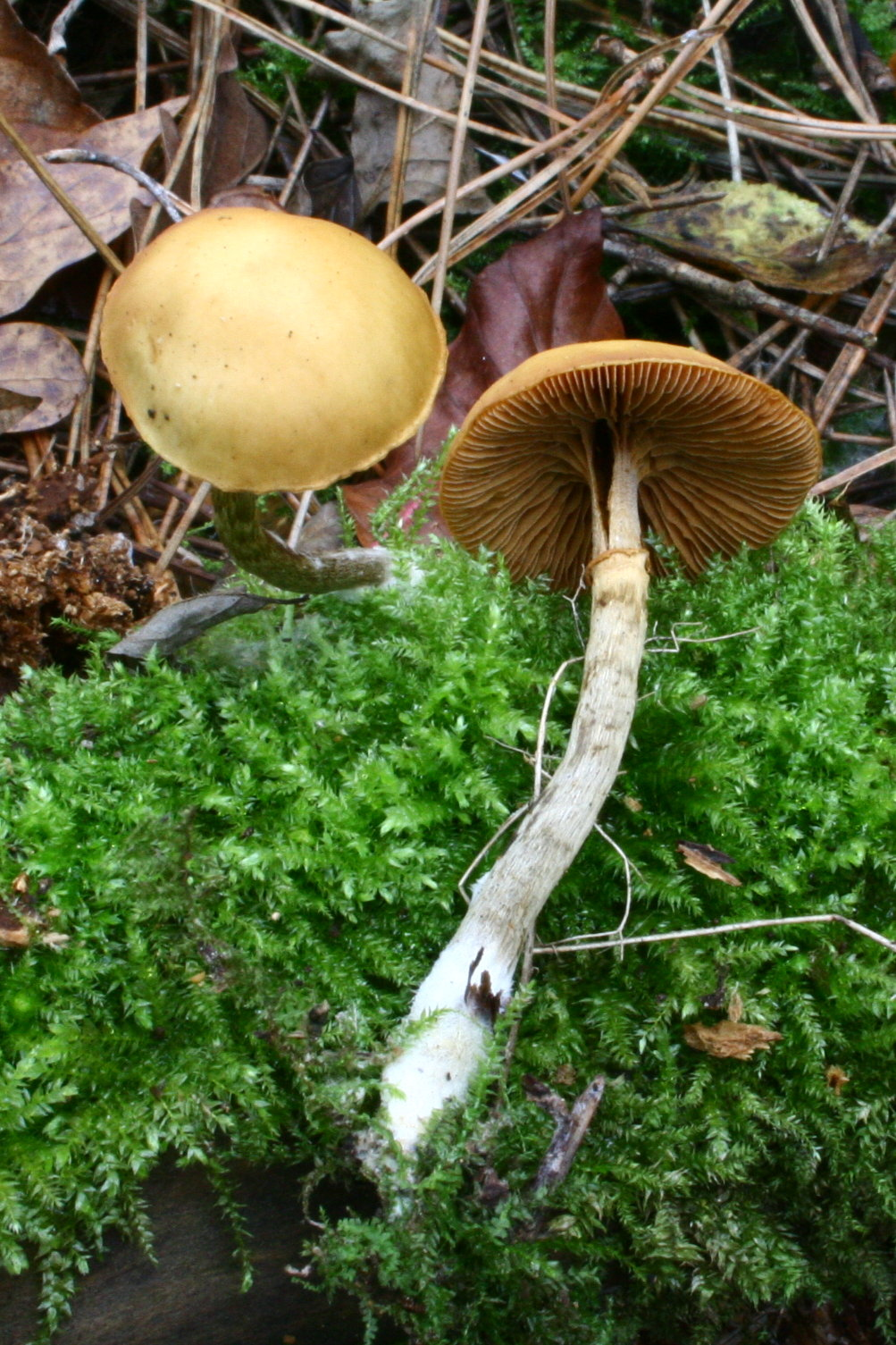 Galerina marginata in a forest near Verrières-le-Buisson, France.